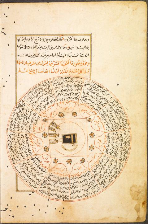 Ibn al-Wardi's map of the sacred Muslim site of the Kaaba in Mecca.